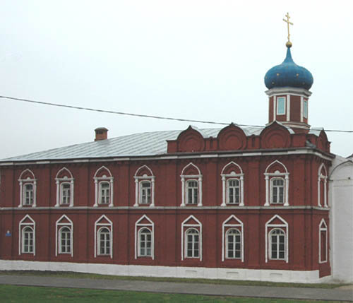 Brusensky Monastery in Kolomna. Uspendkaya Church, trapeznaya